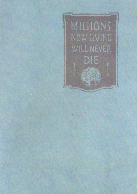 I took this picture. It is the picture of the cover of "Millions Now Living Will Never Die!", a booklet first published in 1920. It is in the public domain.